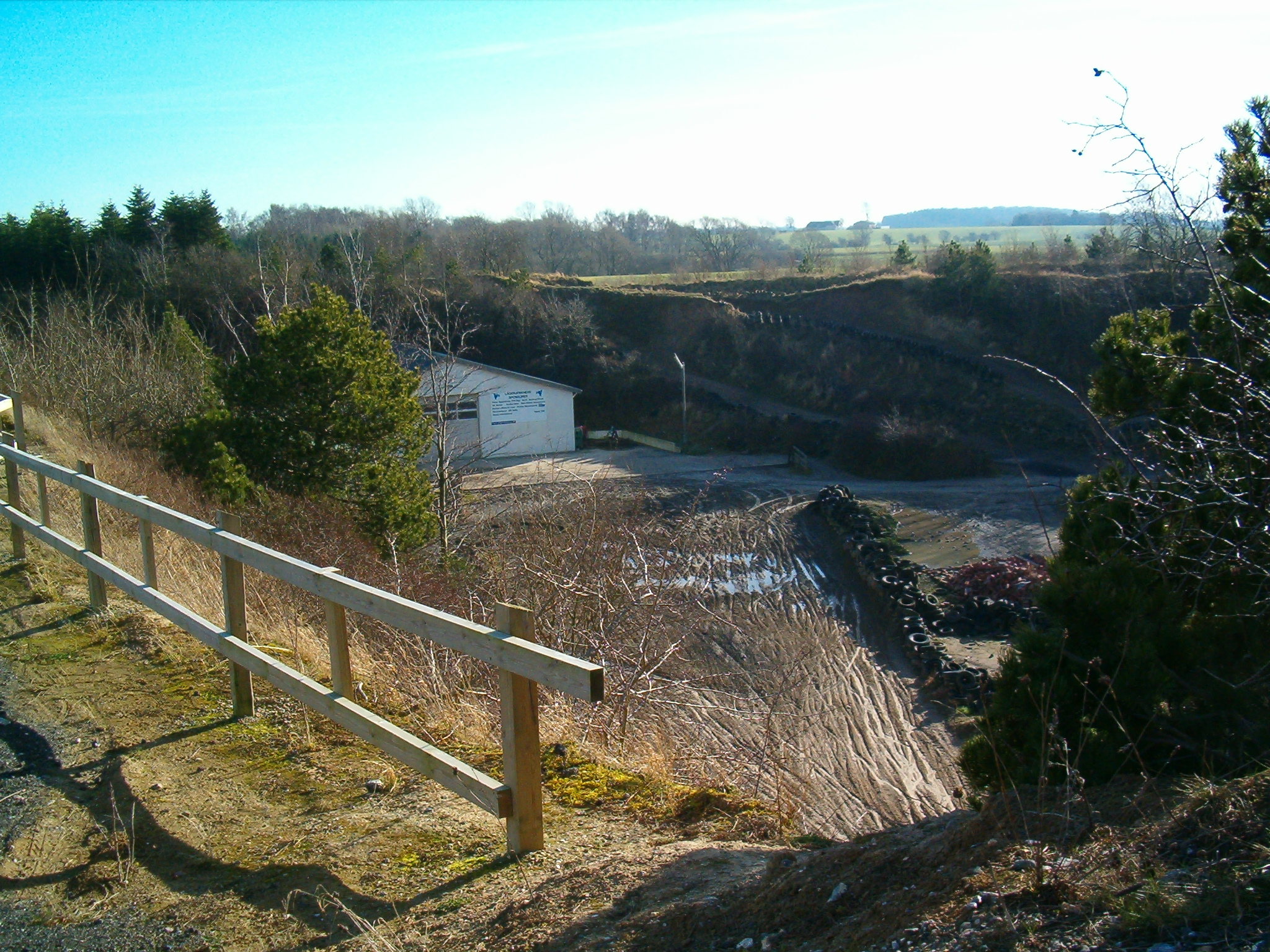 A motocross racing track, Lågerup - Denmark